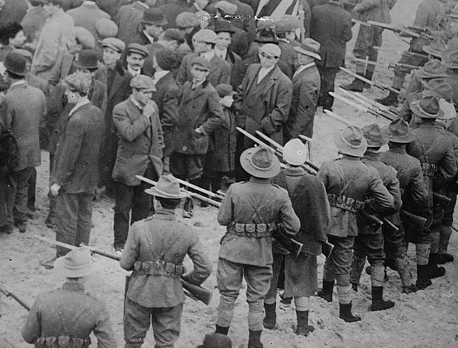 Massachusetts Militia prevent strikers from advancing in Lawrence, Mass in 1912.